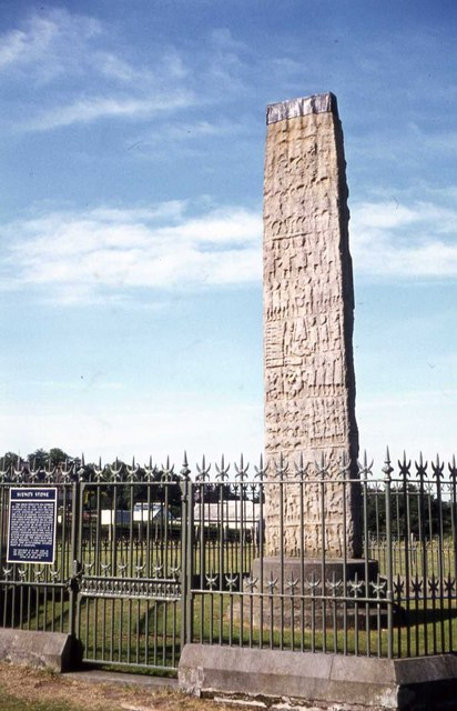 Sueno's Stone